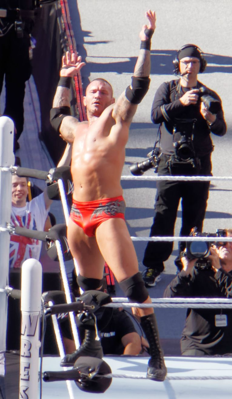 Randy Orton celebrating her victory at WrestleMania 31 after defeat Seth Rollins in March 2015.